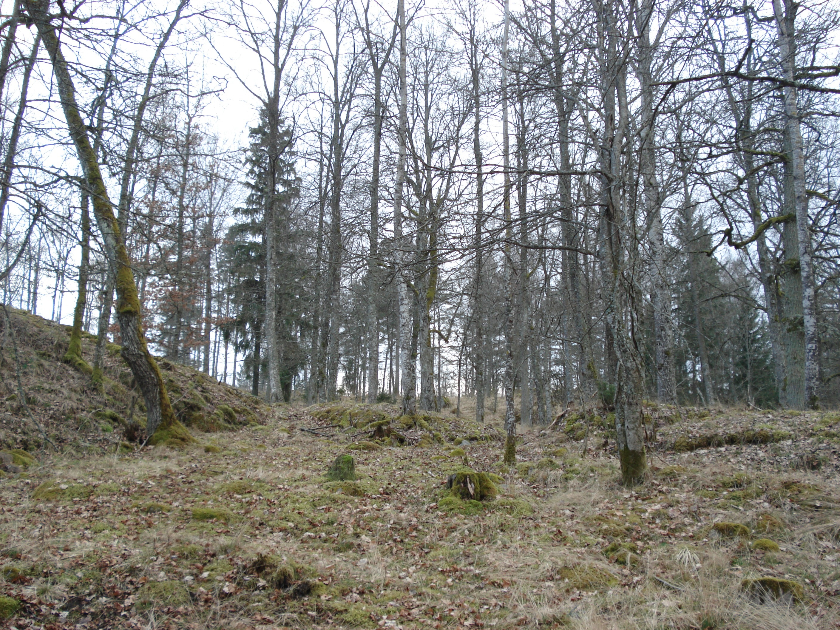 Lenholm conservation area is located in the south-west Finland, city of Parainen.